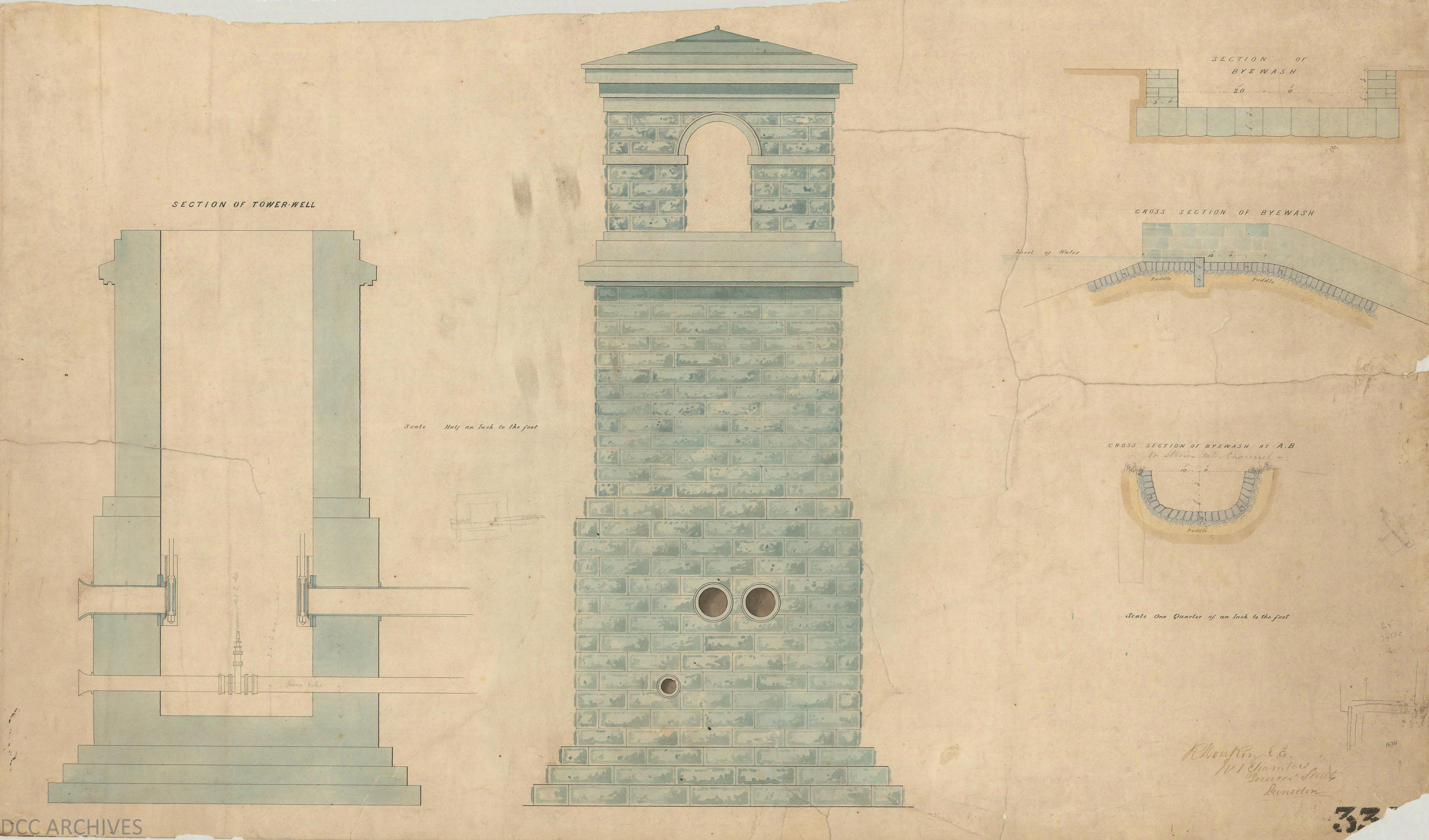 Ross Creek Reservoir Tower plans. DCC Archives, City Engineer's plan 13/12/1